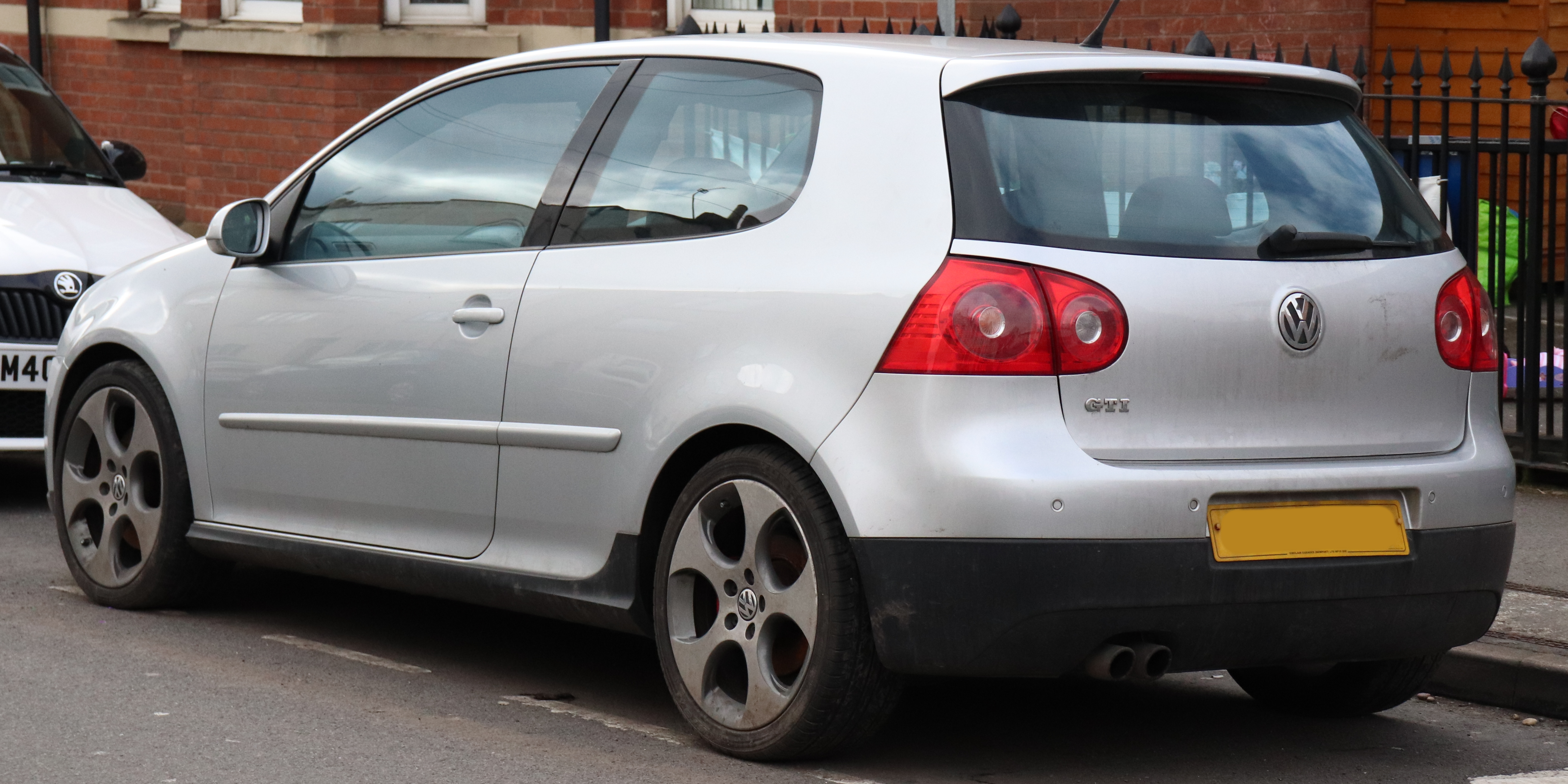 2005 Volkswagen Golf GTi 2.0 Rear Taken in Leamington Spa